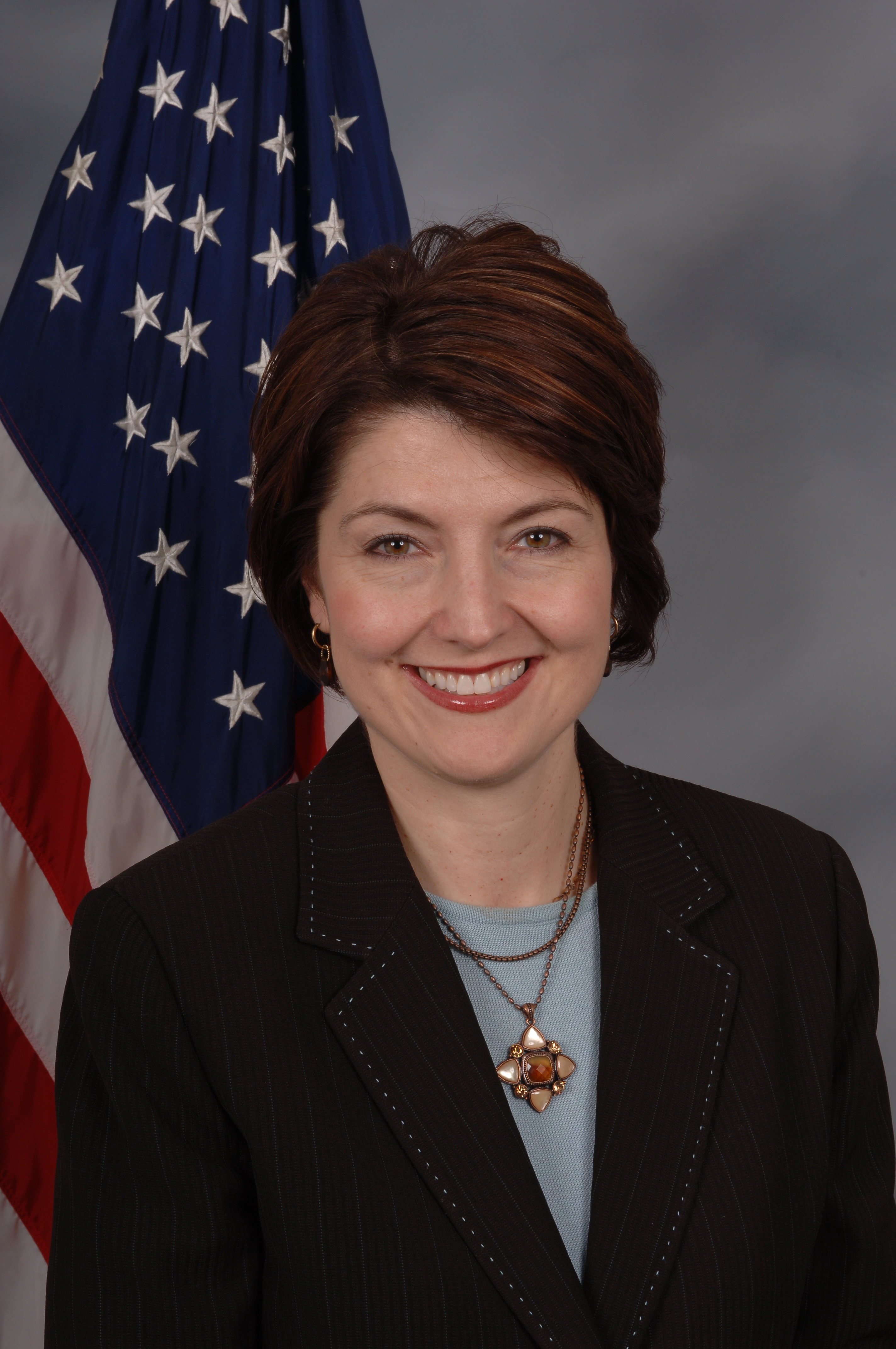 Cathy McMorris Rodgers, U.S. Congresswoman (R-Washington, 2005-present)